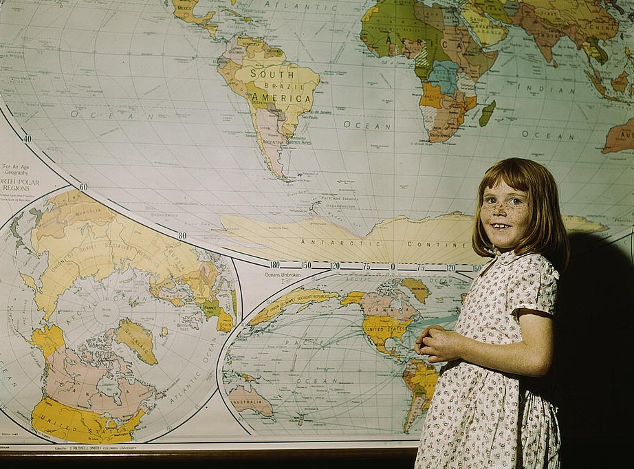 School girl in front of a map, 1936-1945 based on the visble map